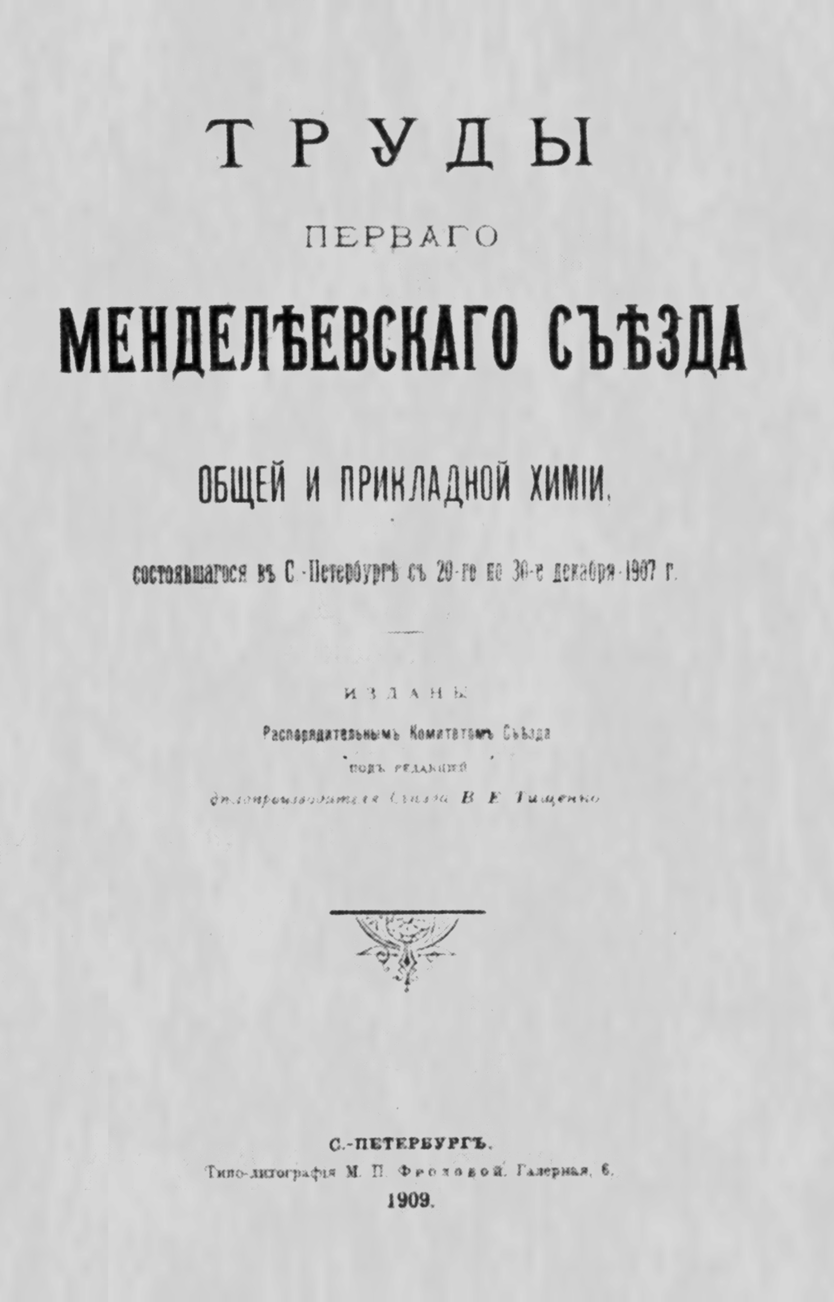 Title page Works of 1st Mendeleev Congress. St.Petersburg. 1907